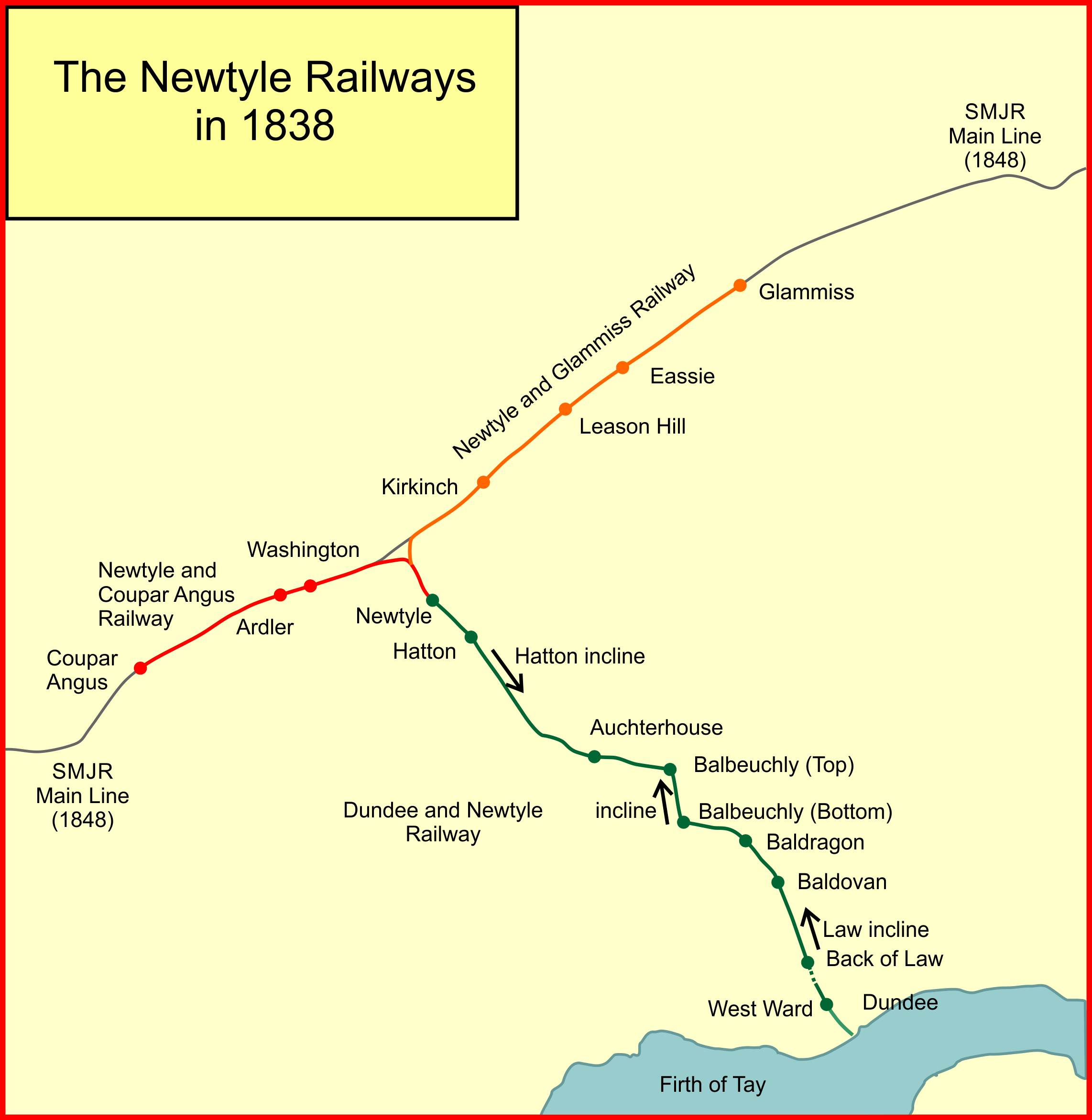 System map of Dundee and Newtyle Railway and associated lines in 1838